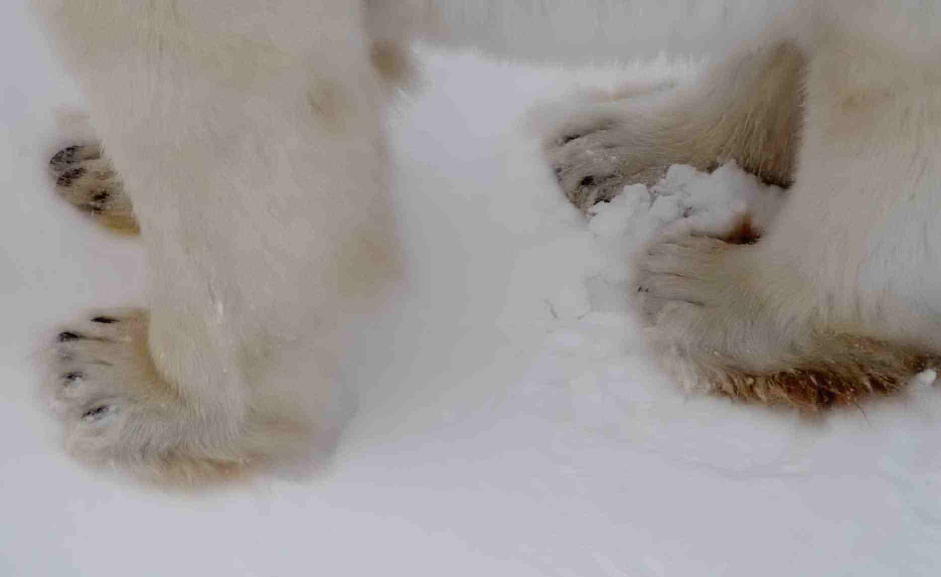 Paws of a male polar bear at Cape Churchill (Wapusk National Park, Manitoba, Canada)